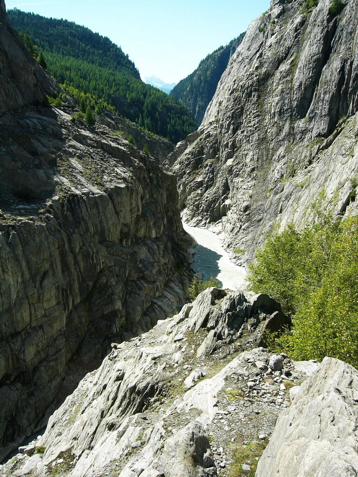 Massa river (Aletsch Glacier valley)